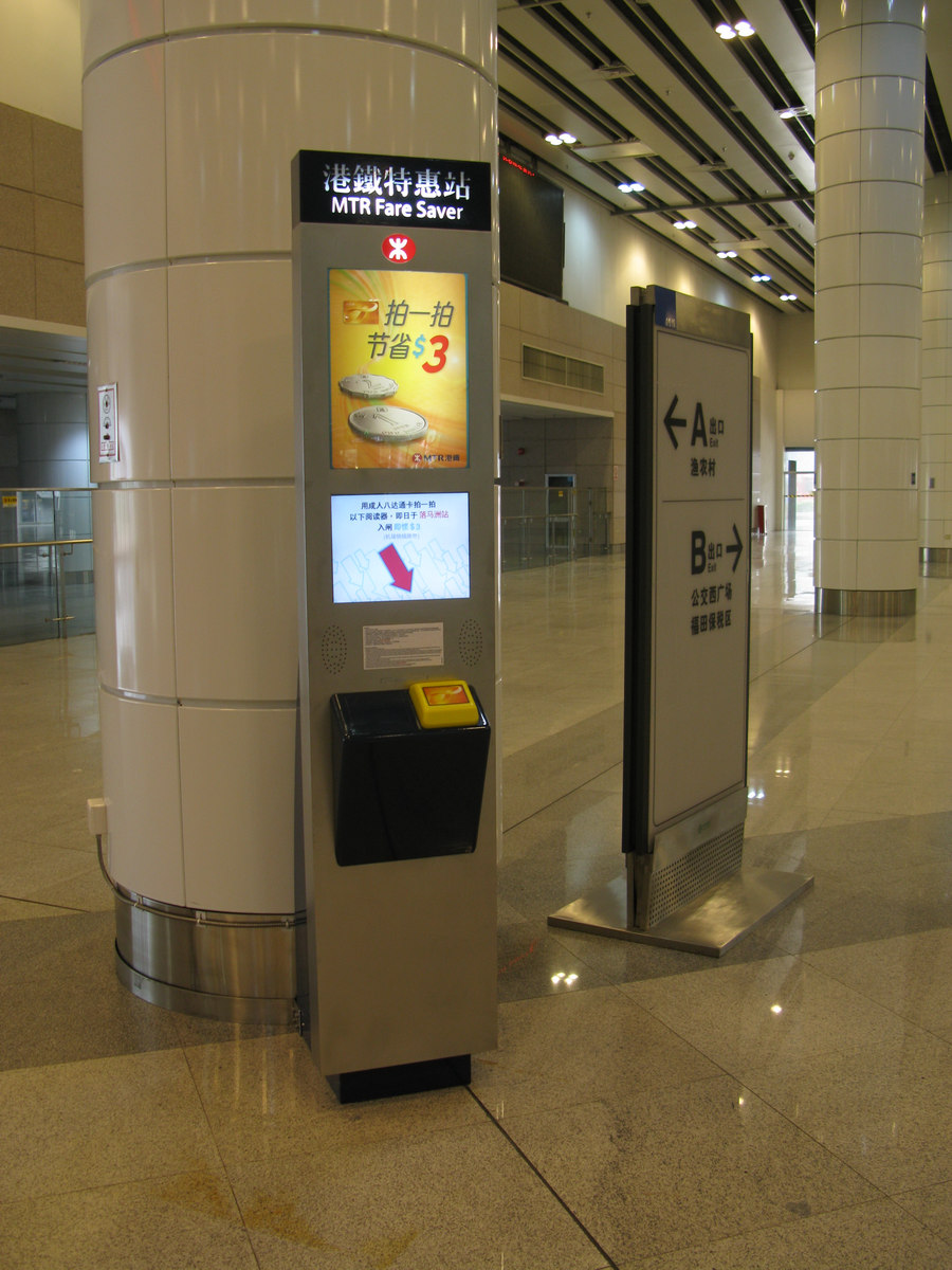 MTR Fare Saver installed at Concourse of Shenzhen Metro Fu Tian Kou An Station